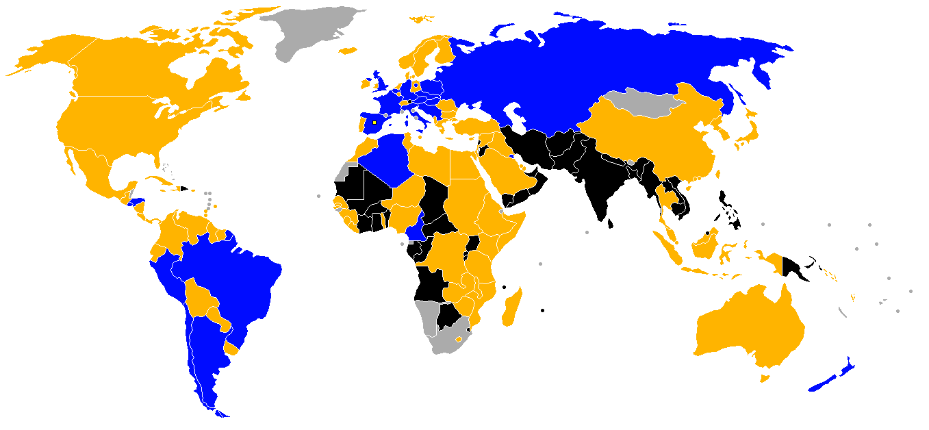 Status of countries with respect to 1982 FIFA World Cup: Qualified for World Cup finals Failed to qualify for World Cup finals Did not enter World Cup Not an associate member of FIFA